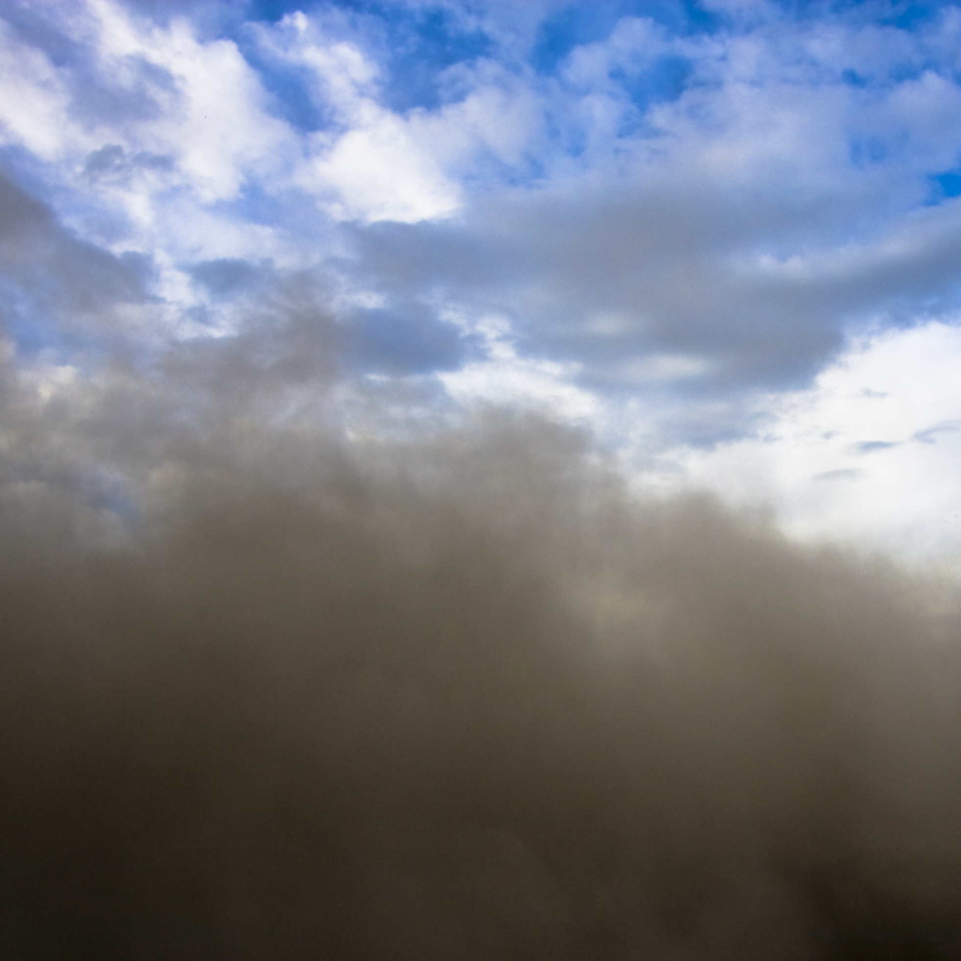 Concrete Dust